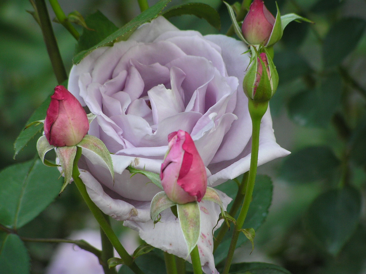 Kitaharima park, rose 'Blue Moon CL'